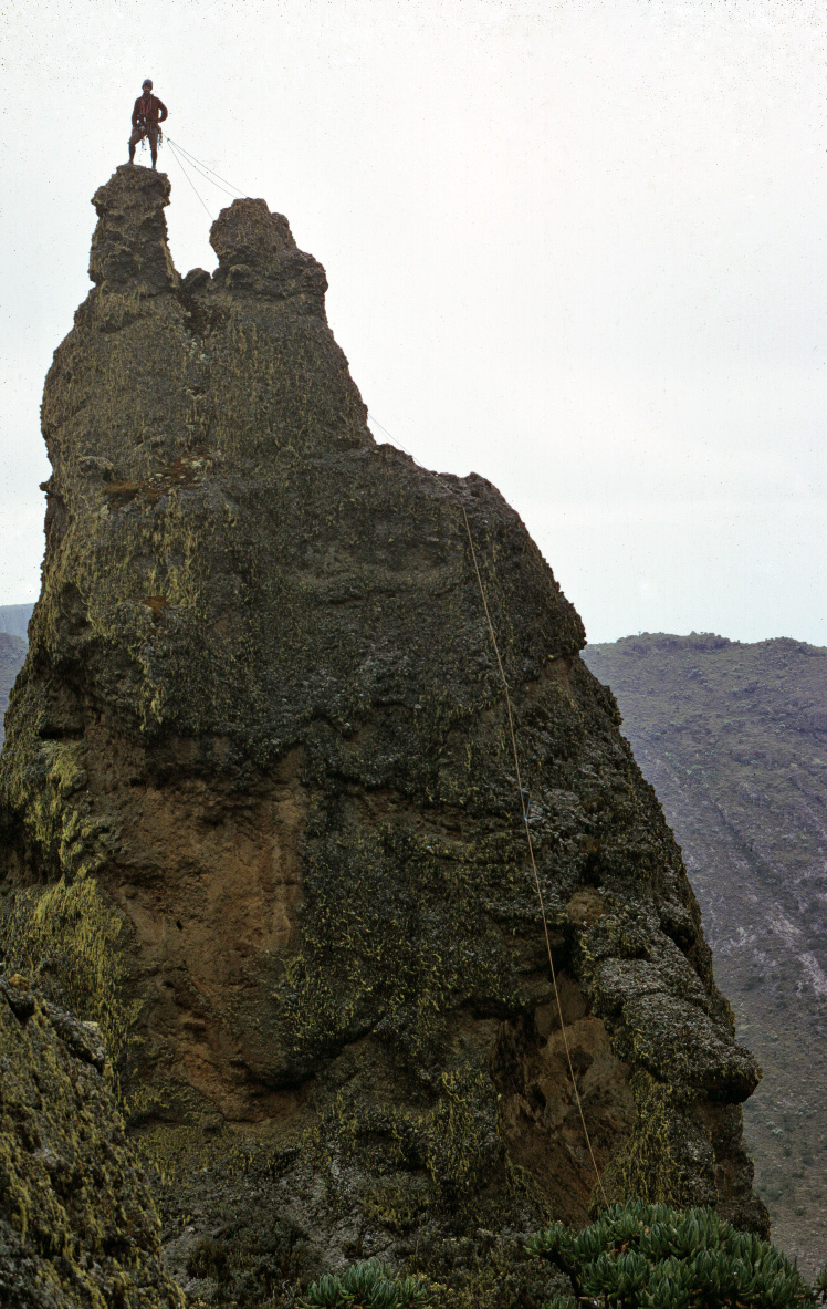 A climber on a Sudek Pinnacle